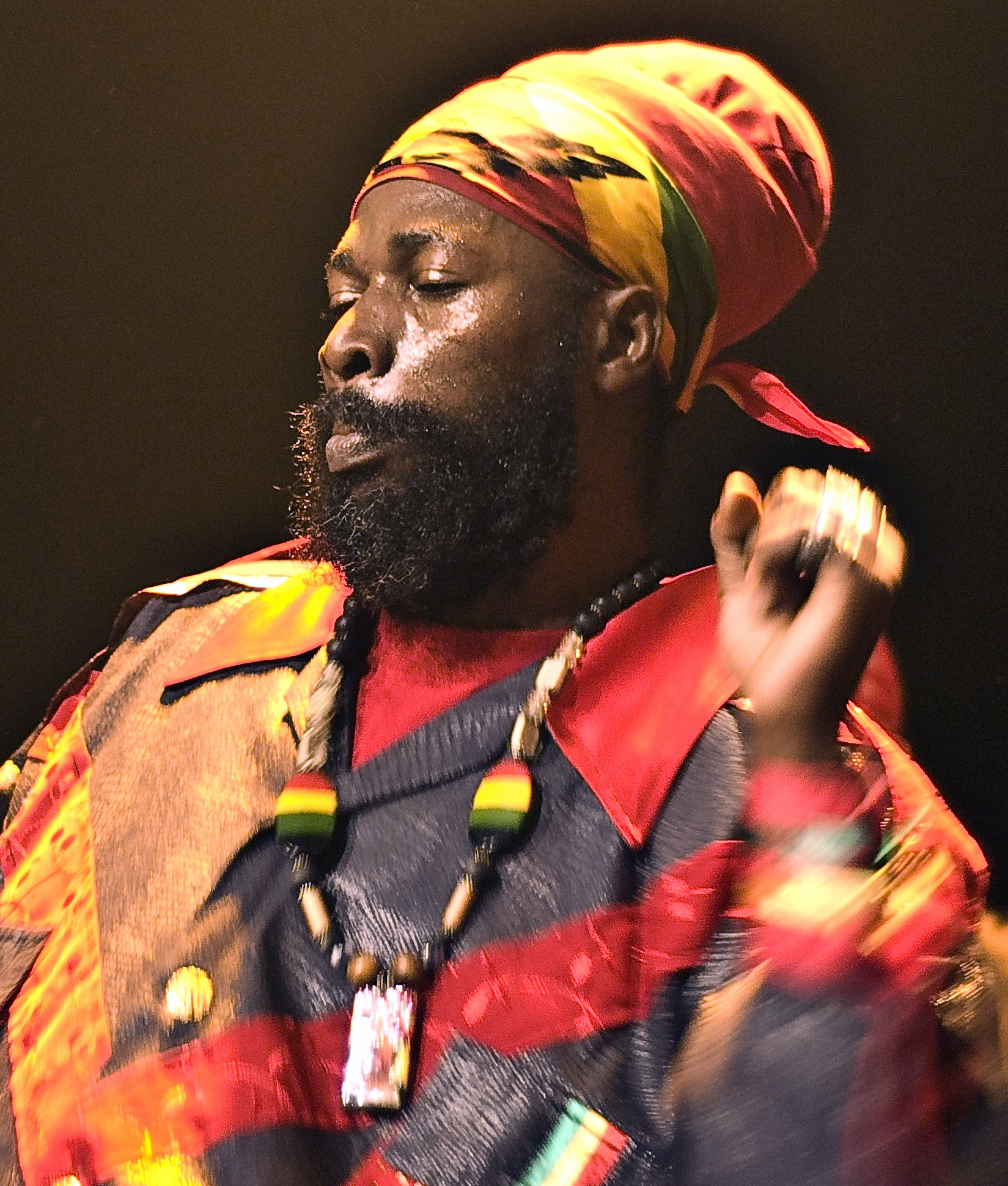 Capleton